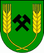 Coat of arms of Veľký Krtíš, Slovakia